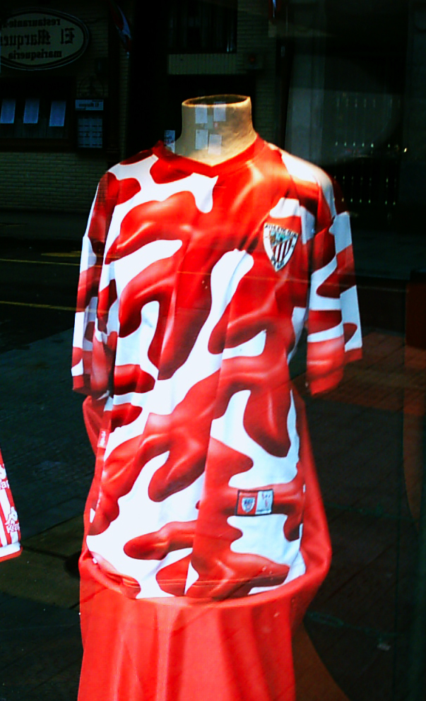 The infamous "ketchup" desing of the Athletic Club jersey, by Spanish artist Darío Urzay.